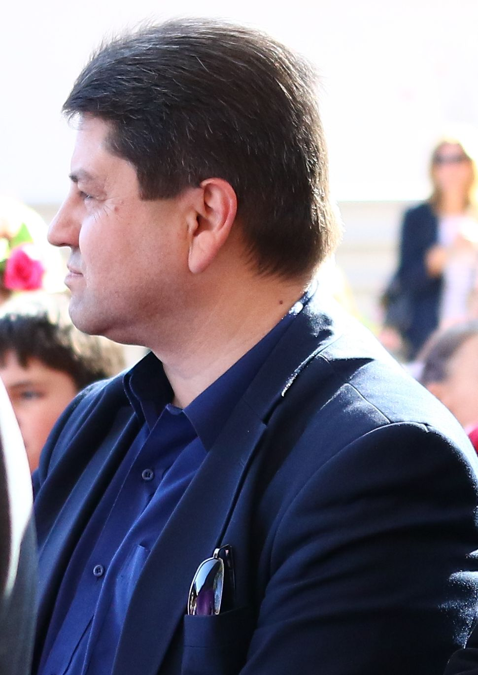 Krasimir Tsipov, a Bulgarian politician, member in the 41,42 and 43rd National Assembly, twice is Vice Minister of the Interior.